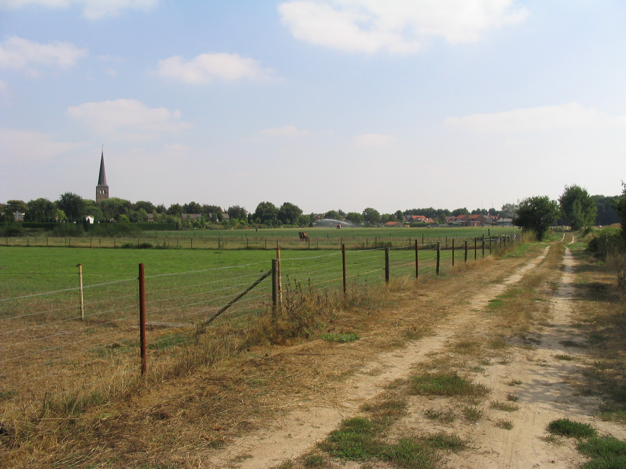 vanaf de Maris